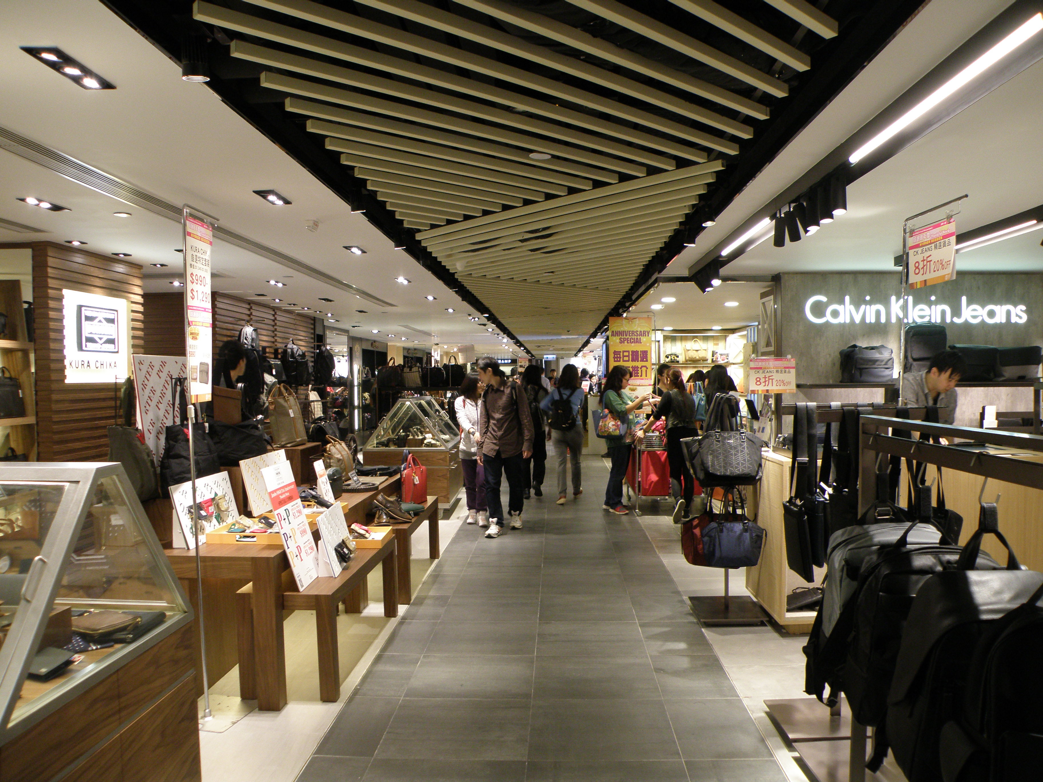 Sogo in Tsim Sha Tsui, Hong Kong.